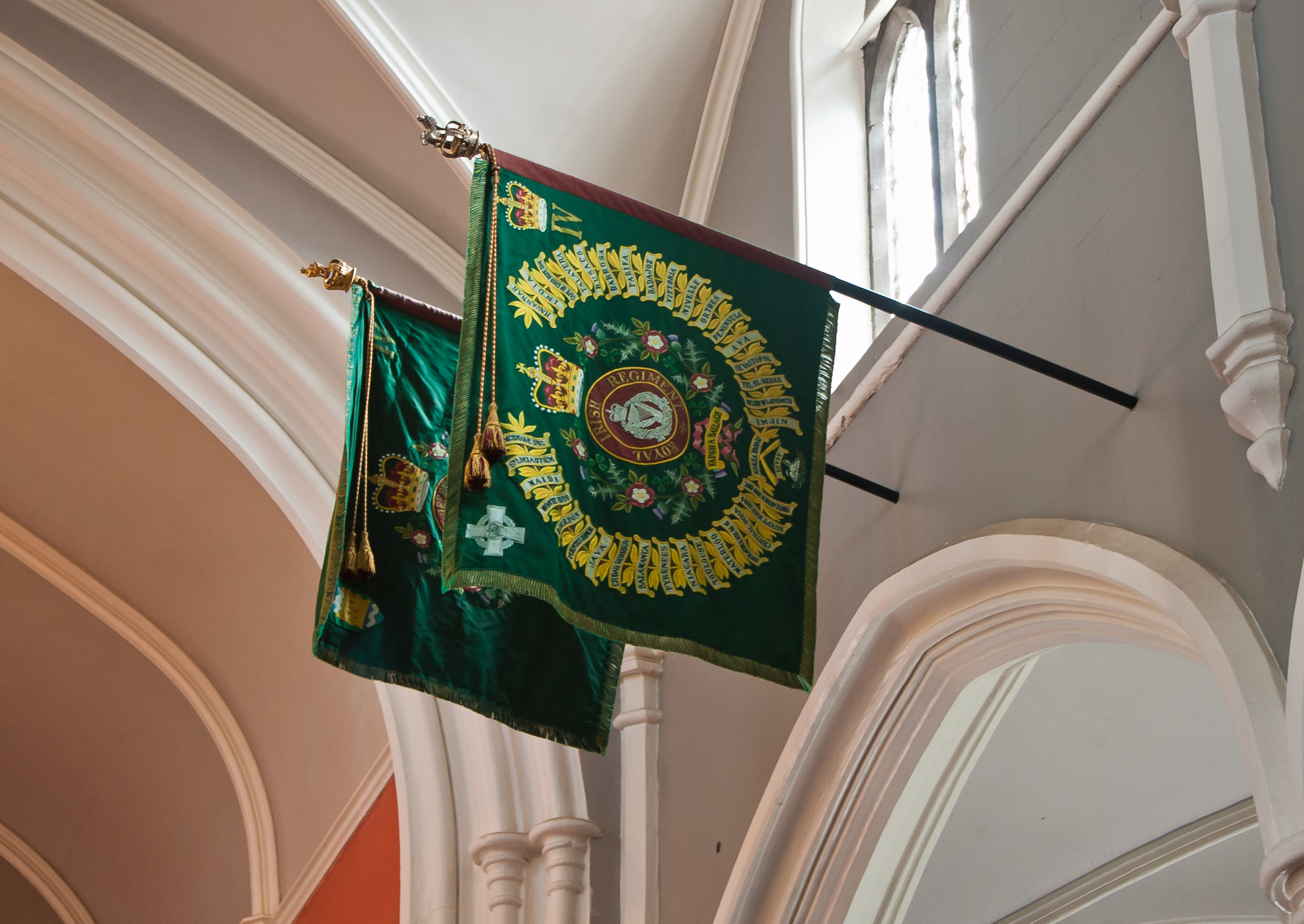 Regimental Colours of the Royal Irish Regiment IV at the south wall of the nave, carrying the motto Faugh A Ballagh.